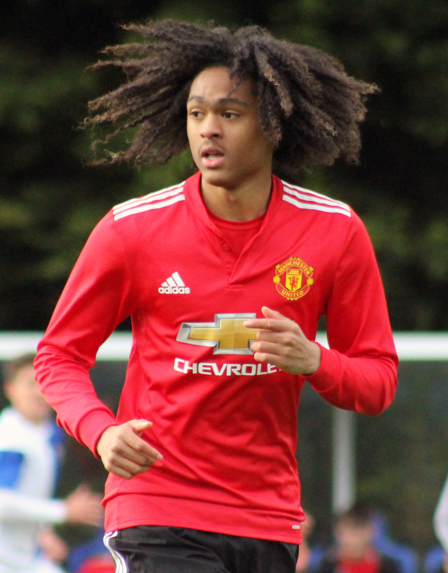 Blackburn Rovers U18s 1-4 Manchester United U18s U18 Premier League North Saturday 18 November Blackburn Rovers Training Centre